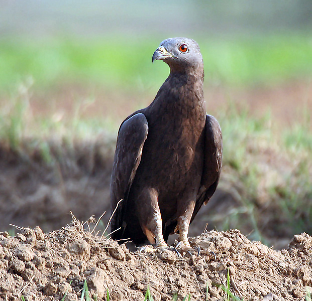 Oriental Honey Buzzard Pernis ptilorhyncus at Hodal in Faridabad District of Haryana, India.